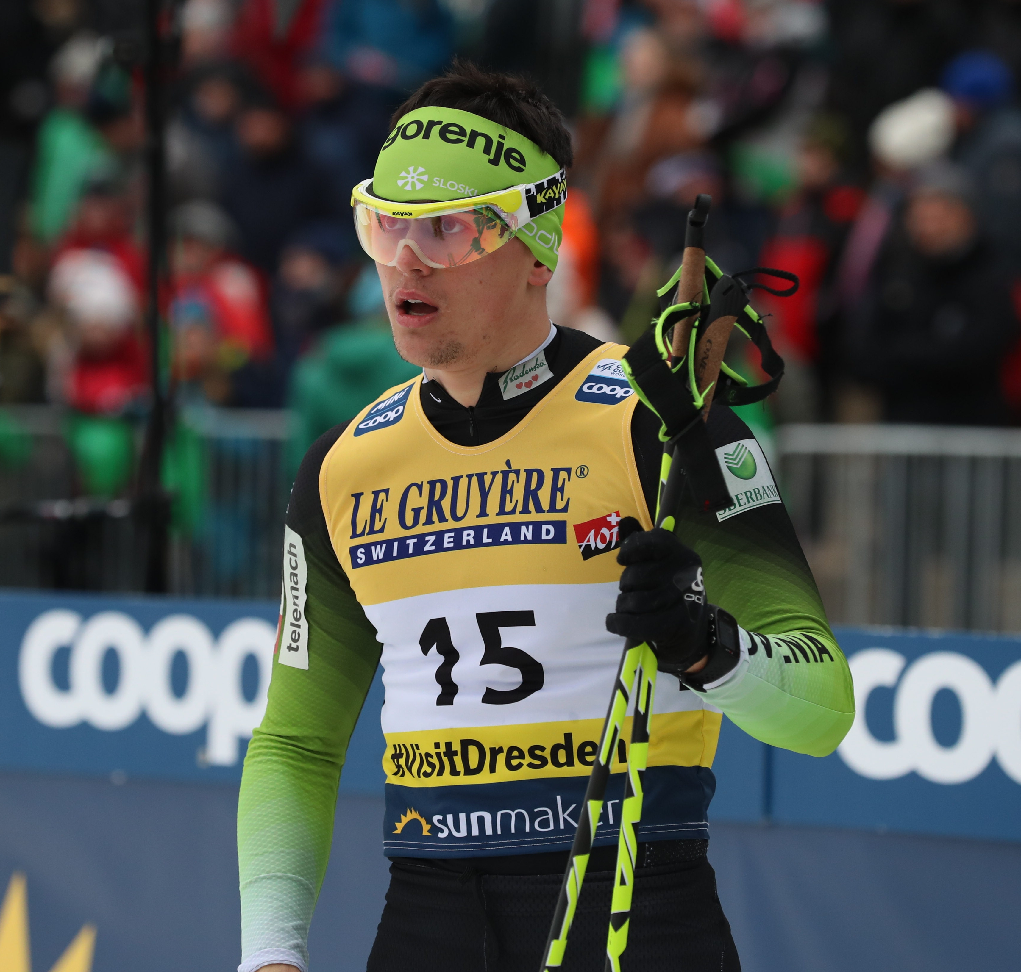 Men's Quarterfinal, Heat 5, at the FIS Cross-Country World Cup Dresden 2019 (1.6 km Free Sprint)